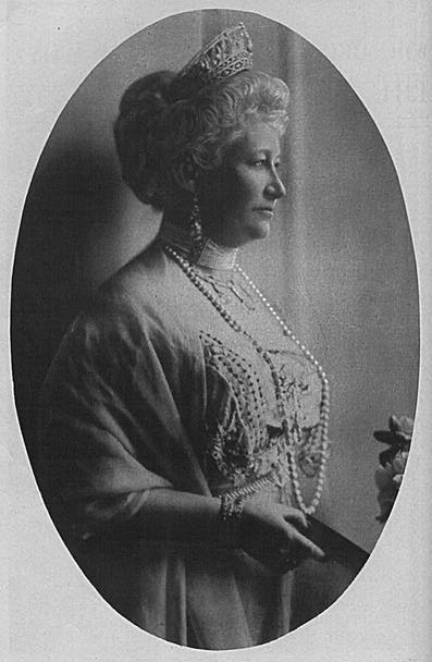 Empress Augusta Viktoria of Germany